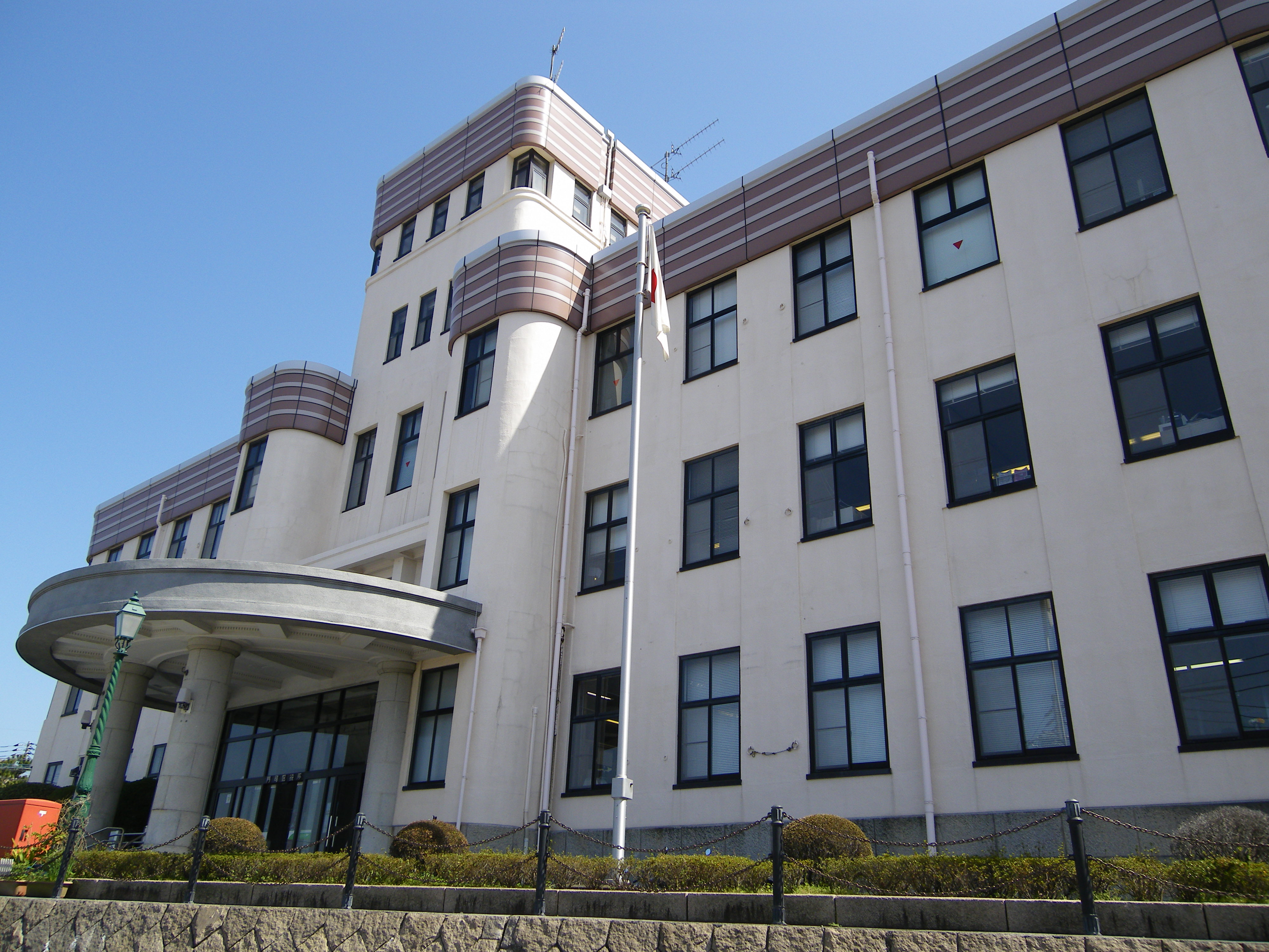 Moji ward office,Kitakyushu city.